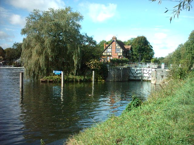 Picture of Bray lock in the River Thames, Berkshire (near to Maidenhead). Taken by Robert Neild 2004.